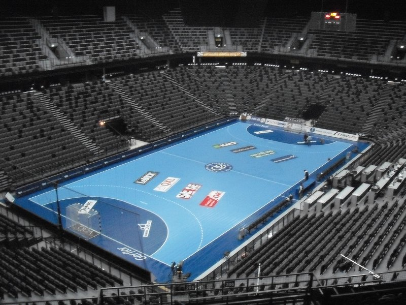 Spaladium Arena before a handball match